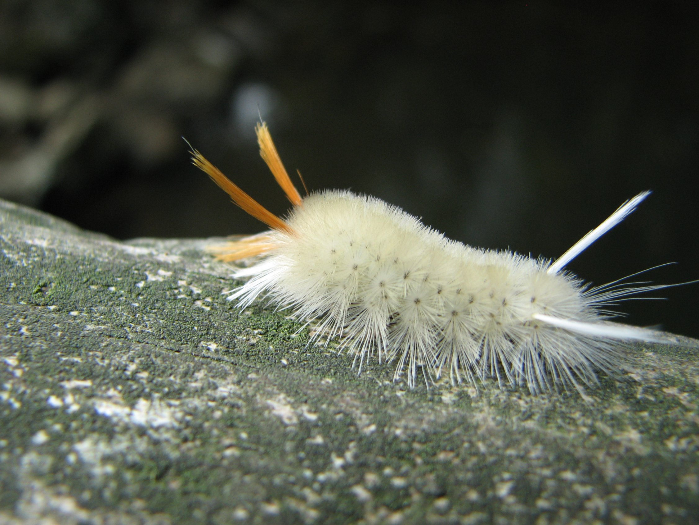 Frozen Head Natural Area and State Park, Morgan County, Tennessee, USA. 28 August 2007. Photographed at the end of Flat Fork Road. Order Lepidoptera Family Arctiidae Genus Halysidota Species harrisii Hodges #8204